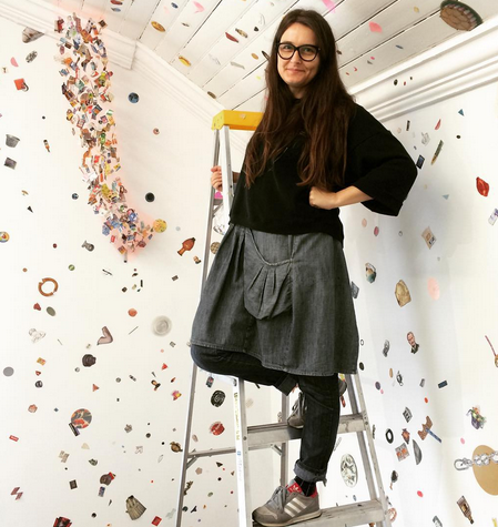 Julia Rosa Clark installing 'Falling and Flying' 2015